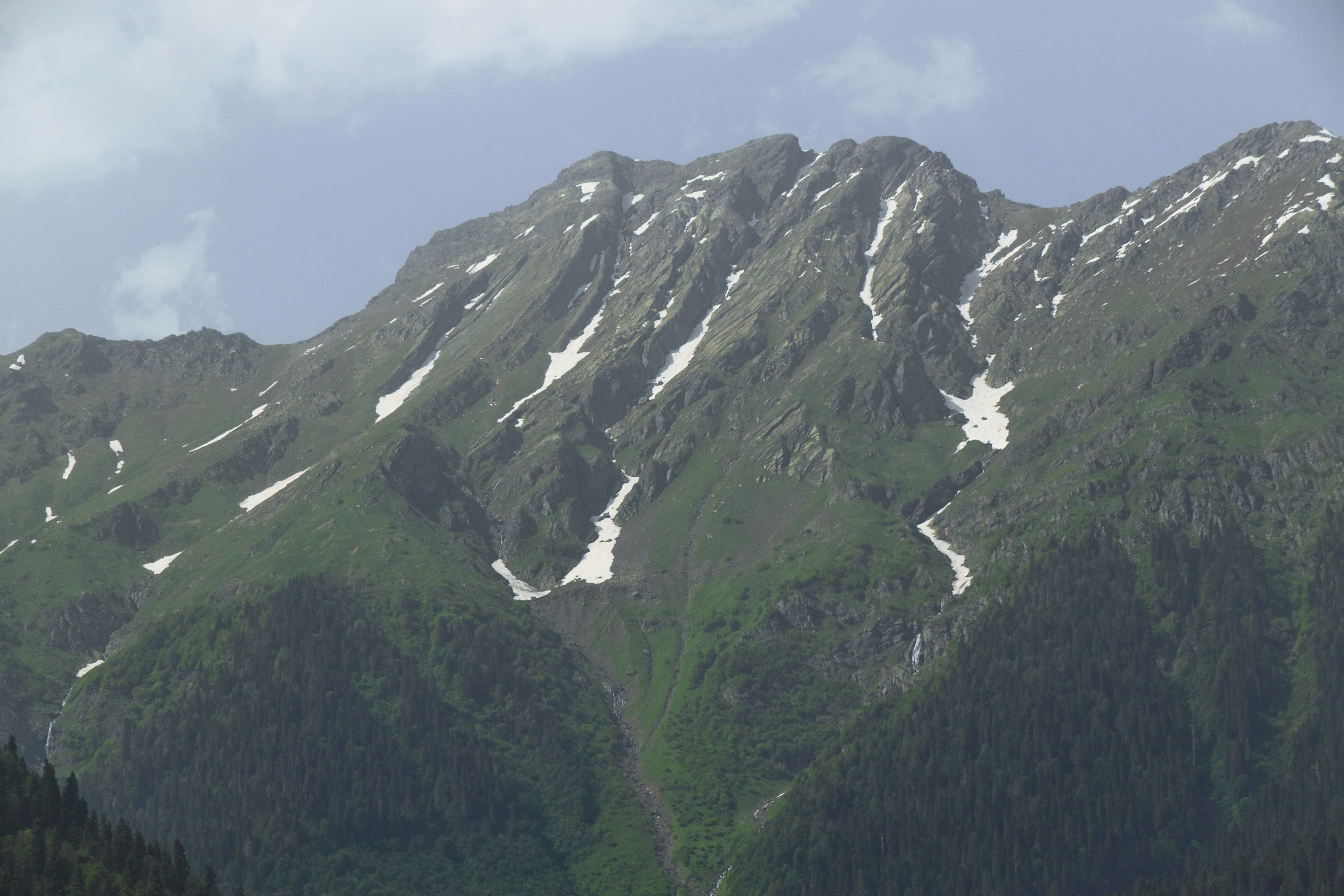 View of the mountains near the Lake Ritsa from the south-west. Ritsa Relict National Park, Gudauta District, Abkhazia.